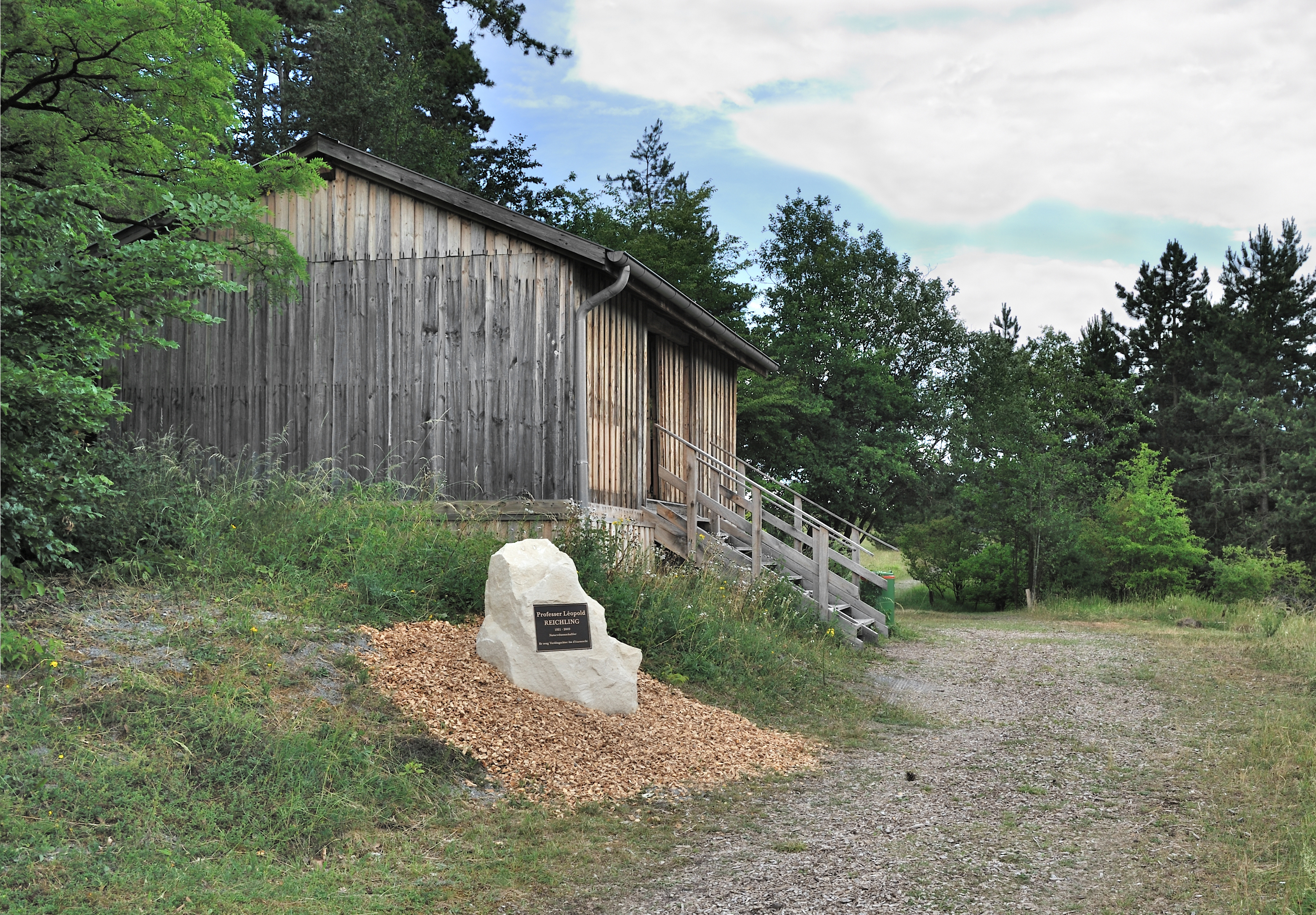 Luxembourg, Niederanven, nature reserve Aarnescht: monument commemorating the naturalist Léopold Reichling (1921-1909) who, in the early 1970s, first published on the biodiversity of the reserve.